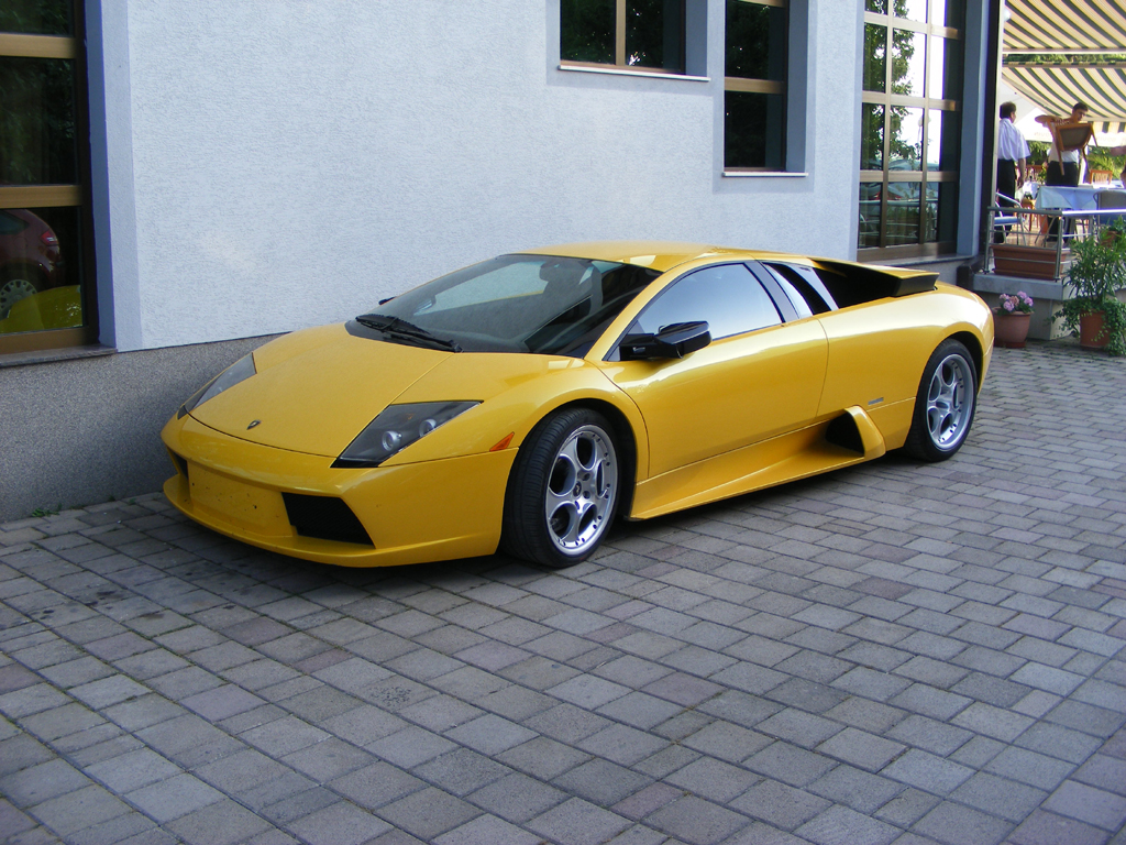 A yellow Lamborghini Murciélago parked in Ohrid, Republic of Macedonia.